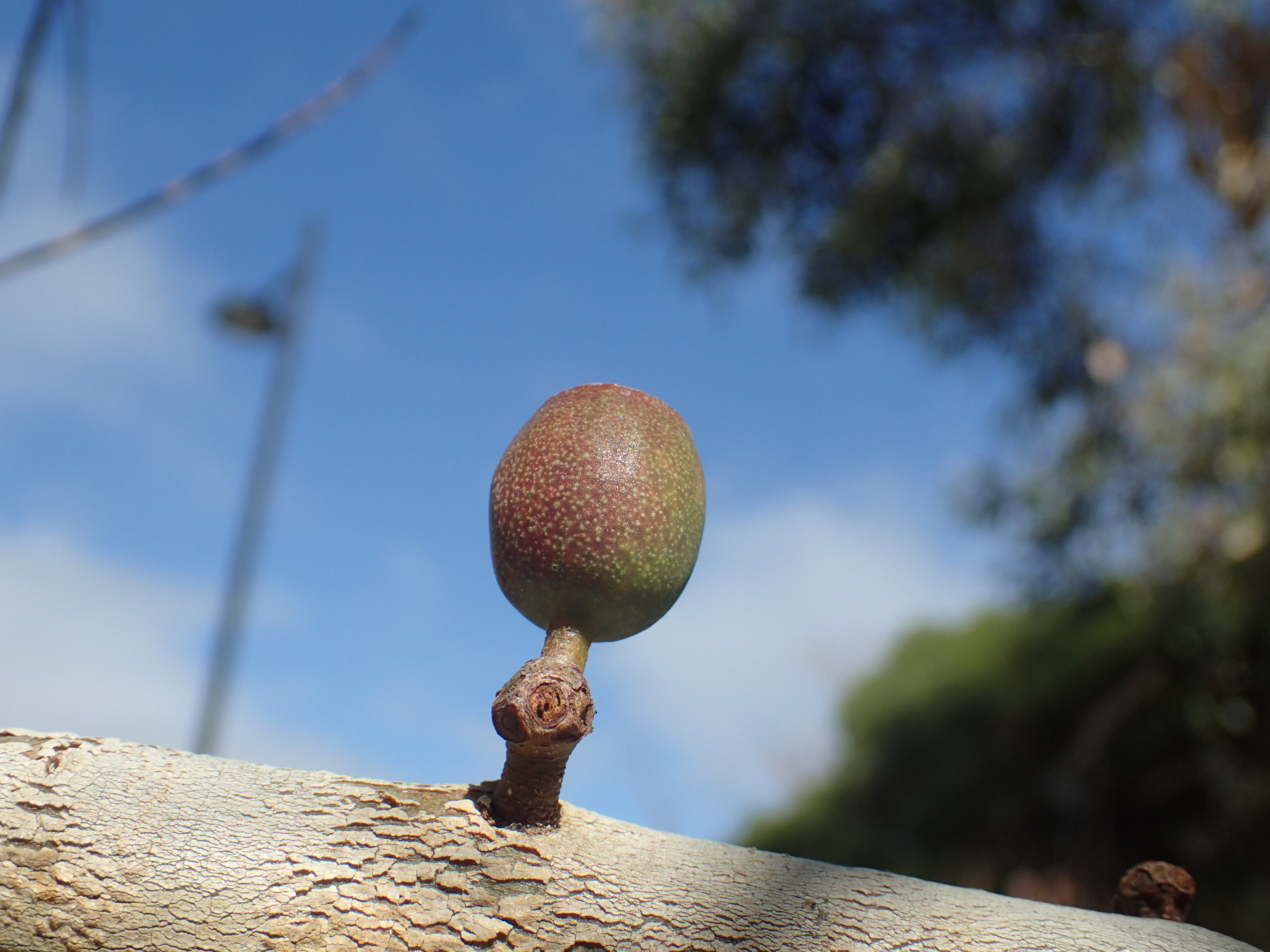 Fruit of Eucalyptus suberea in Kings Park, Perth